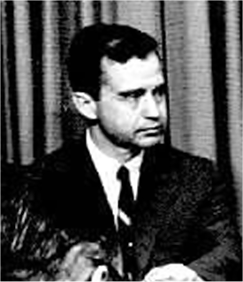 Detail of 1968 Salem Statesman Journal news photograph of a news conference held by Governor Tom McCall with members of his cabinet.